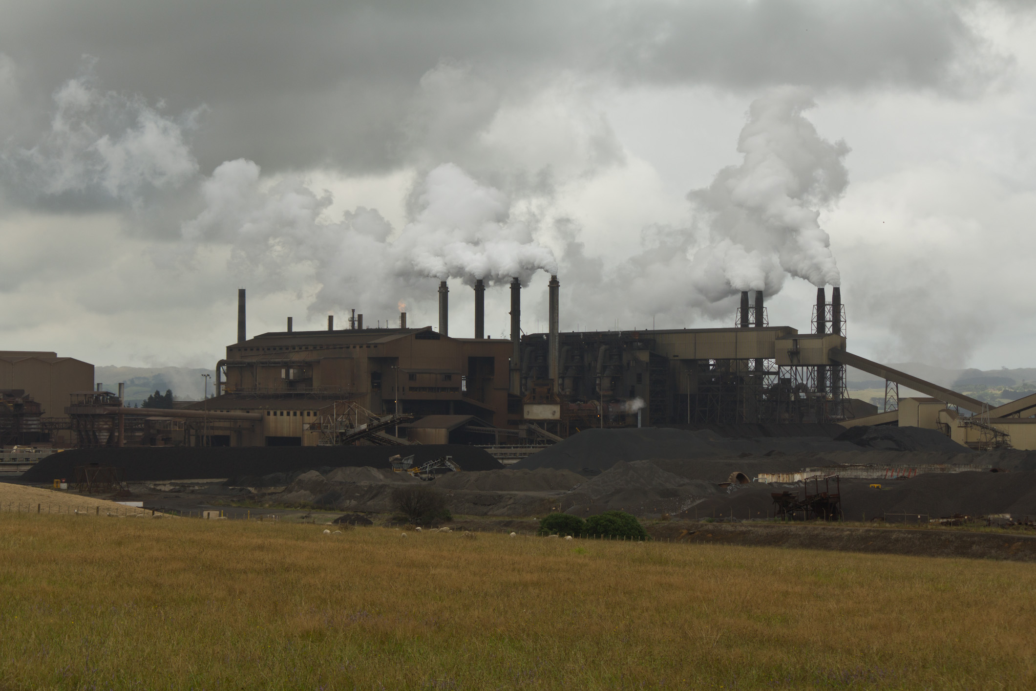 The Glenbrook Steel Mill's iron plant. Visible emissions from the kilns and the multi-hearth furnaces can be seen.